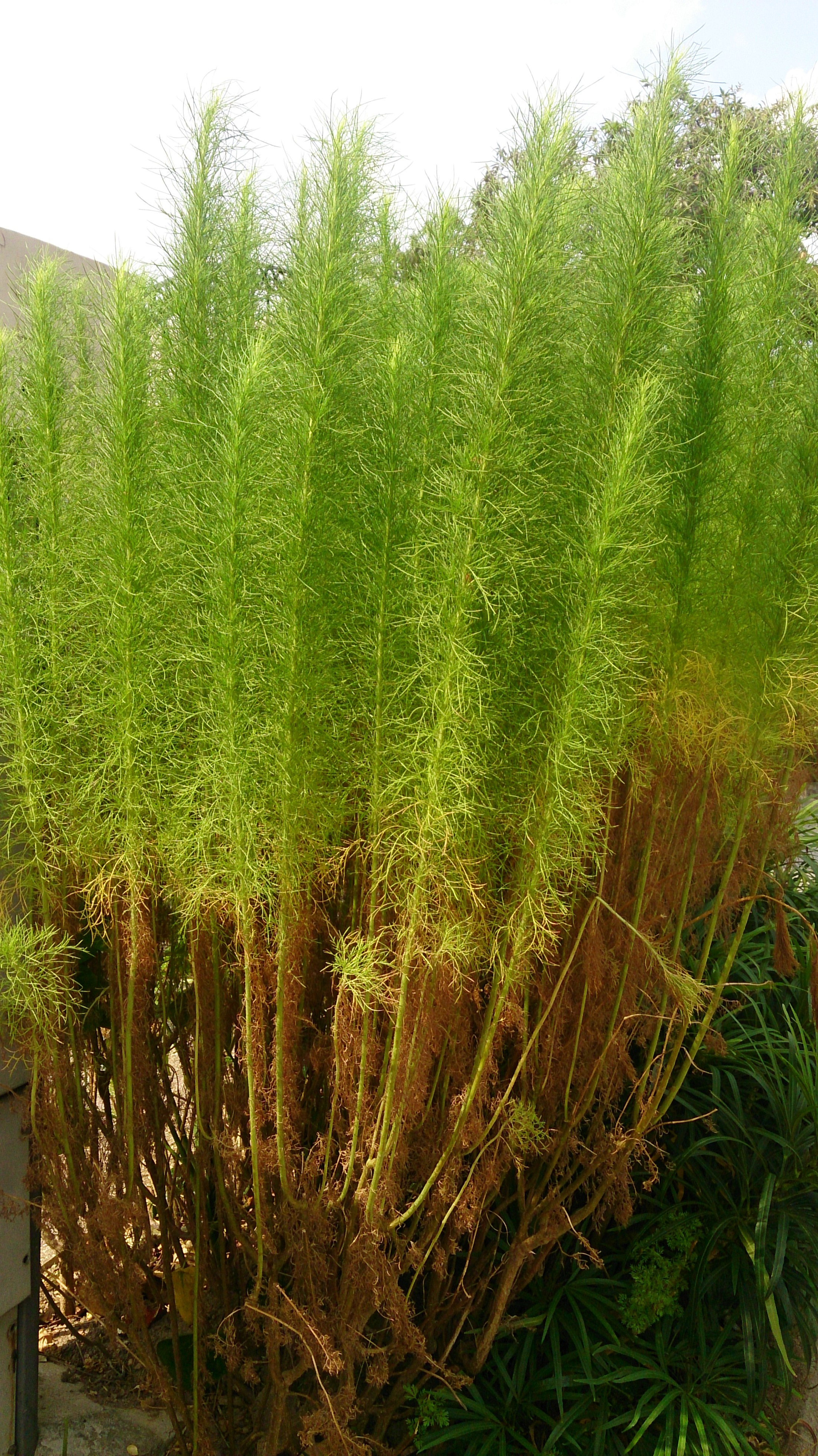 Artemisia scoparia. Common name: Redstem wormwood. Strongly aromatic and used to flavor fat meat to improve digestibility and stimulate appetite. Medicinal usages: remedies for stomach ailments, rubbed on skin to deter flies, placed among clothes to deter moths. The leaf tea is a tonic and given to children to dispel parasites.